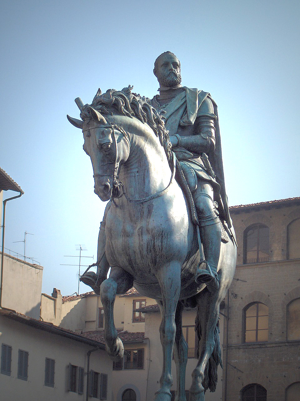 Equestrian statue of Cosimo I de' Medici on the Piazza della Signoria, by Giambologna; Florence, Italy, 1587- 94 Own photo - photo made by Georges Jansoone on 12 October 2005